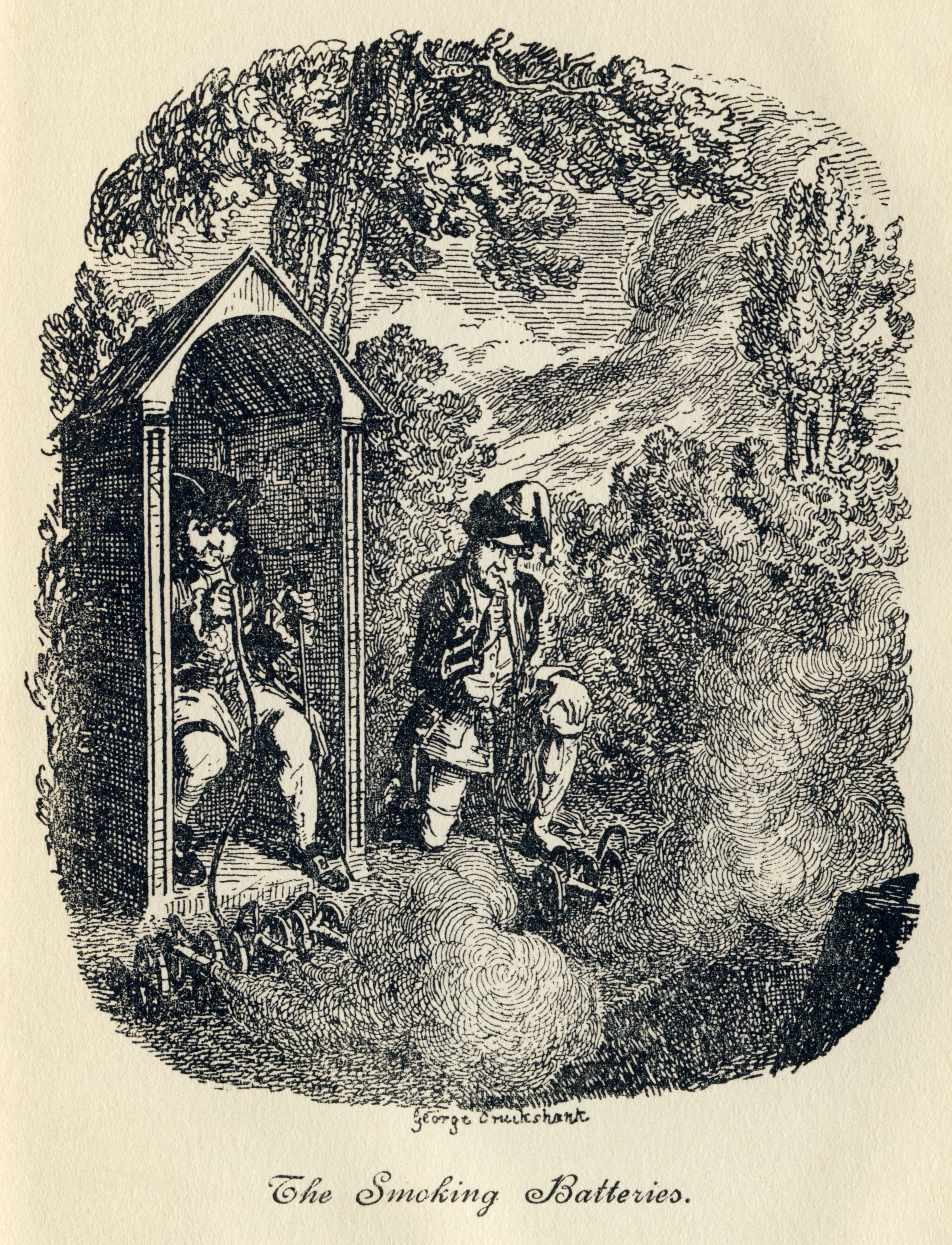 From George Cruikshank's illustrations to Laurence Sterne's Tristram Shandy. Plate VIII: The Smoking Batteries. Uncle Toby is in the sentry box, the corporal on the right. Basically, the corporal has invented a way to make multiple cannons be fired at once, by using the principles of a hookah - when a puff is taken, the cannons fire. Unfortunately, the two find the puffing a little too enjoyable...